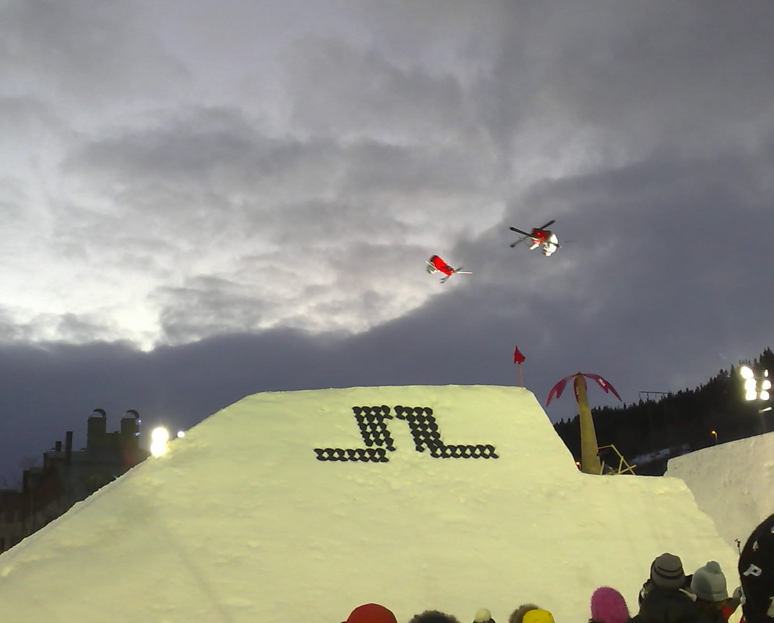 Jon Olsson's big air competition Jon Olsson Invitational in Åre, Jämtland, Sweden.